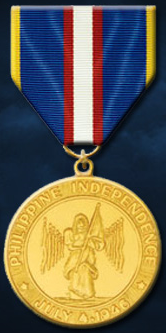 Philippine Independence Medal obverse